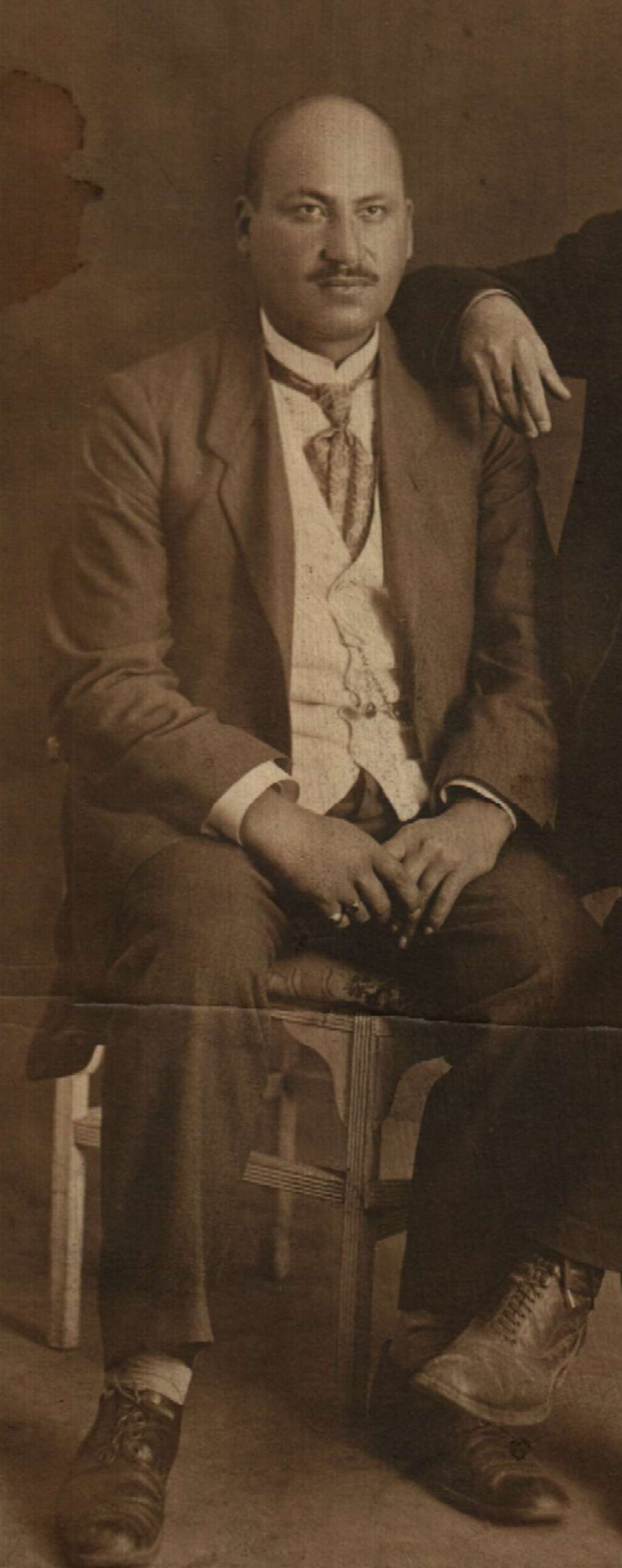 Bulgarian conductor and composer Aleksandar Krastev (1879-1945).